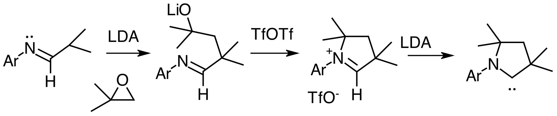 Stepwise synthesis of a CAAC